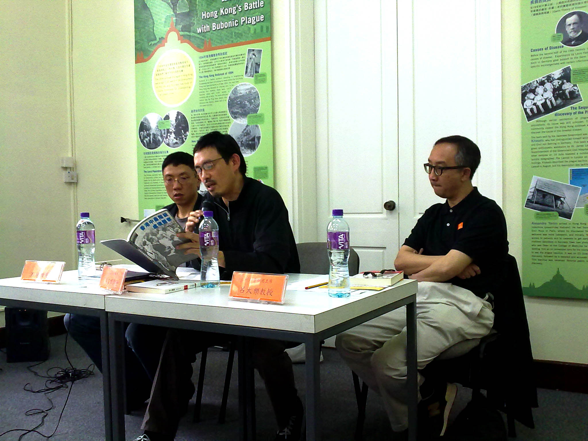 Ma Ka Fei (Center)